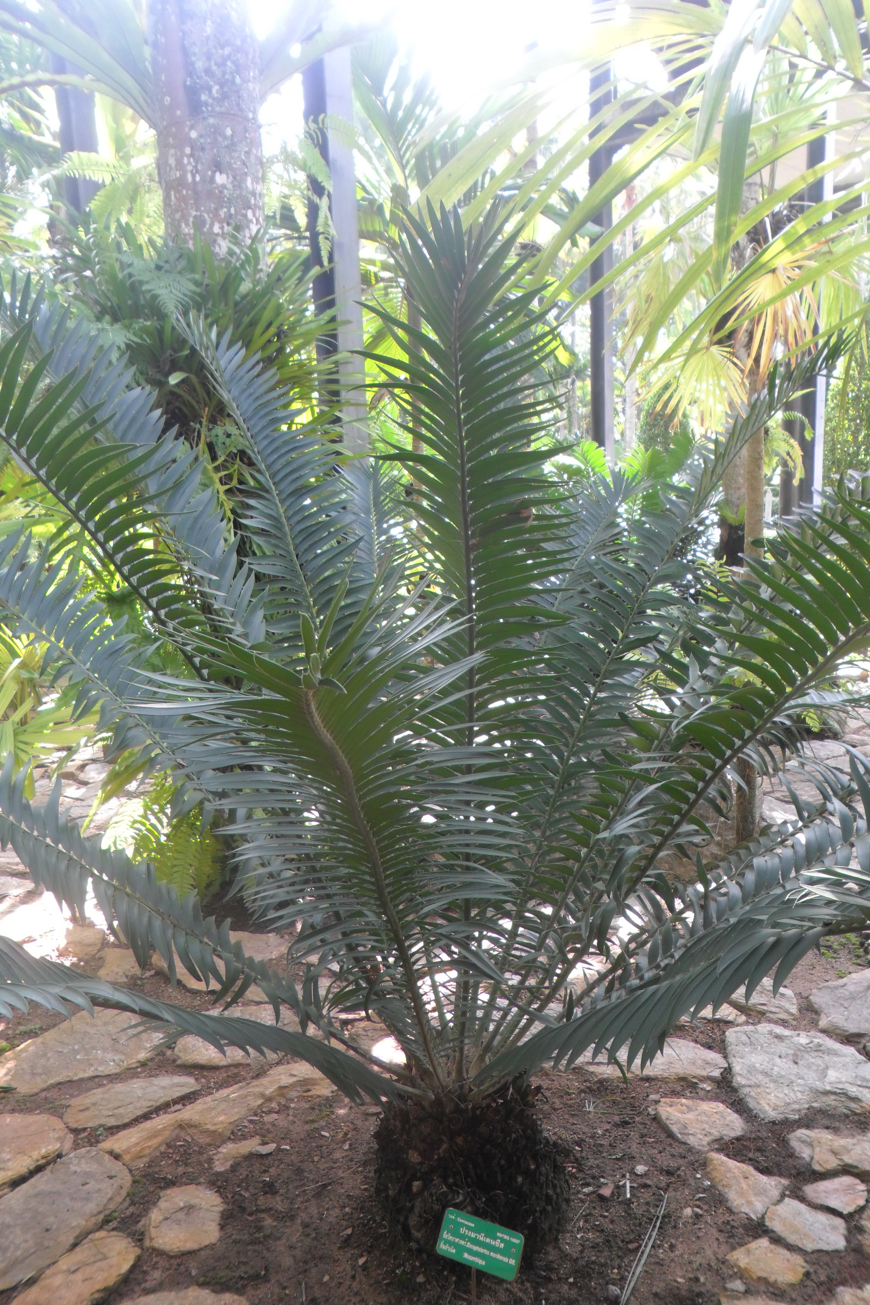 Encephalartos manikensis. Nong Nooch Tropical Garden. Thailand.